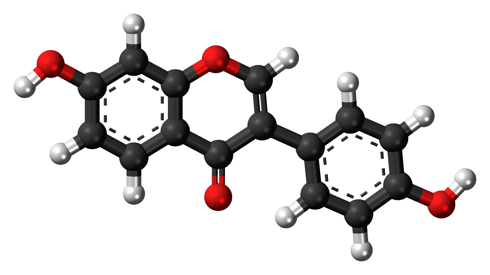 Ball-and-stick model of the Daidzein molecule, a compound of the isoflavones class. Colour code: Carbon, C: black Hydrogen, H: white Oxygen, O: red